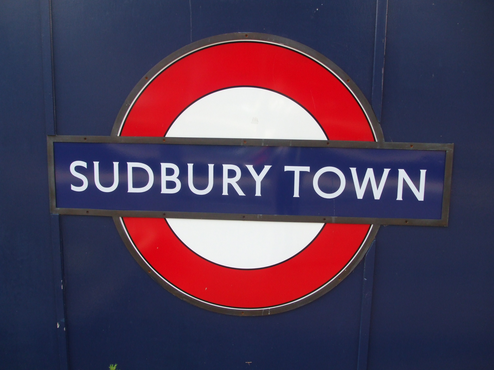 Sudbury Town tube station platform roundel